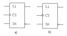 Bistable JK ET (JK ET Flip-Flop)